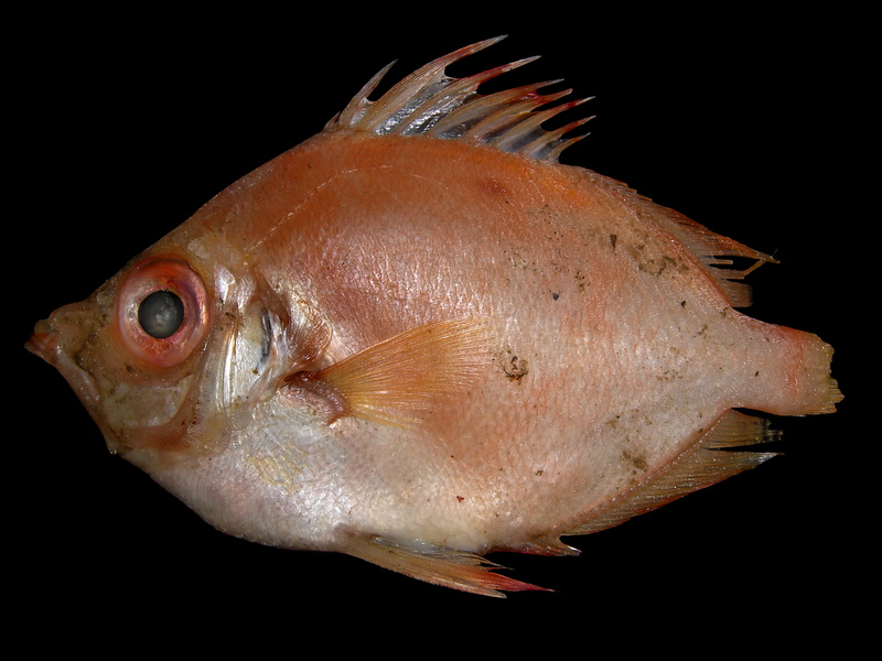 Boar fish from the Lundy's (Celtic Sea)